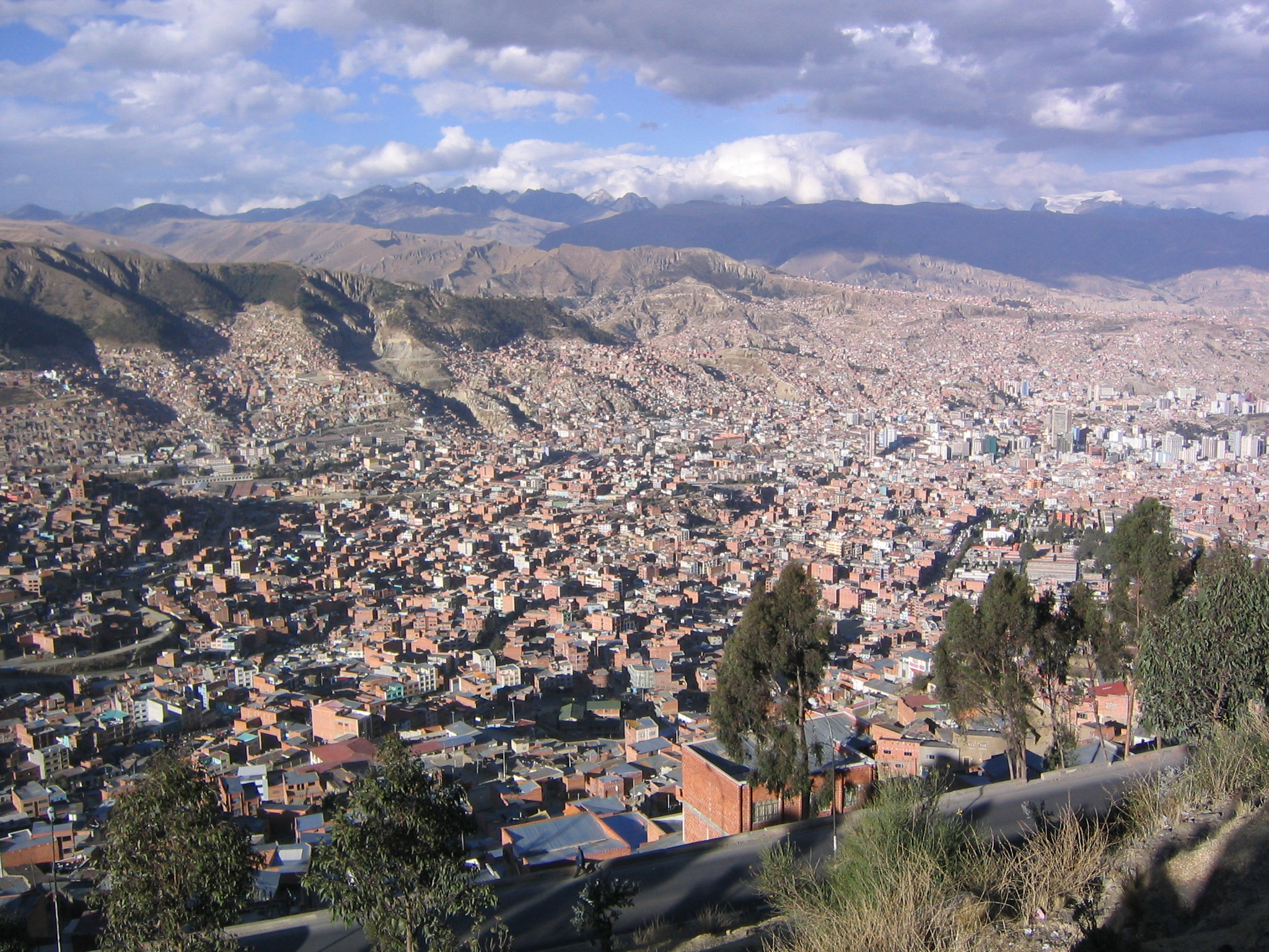 Bolivia - La Paz, the de facto Capital of Bolivia and the highest capital city in the world.